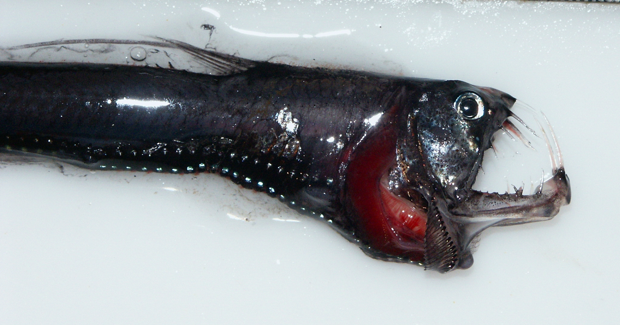 Head of a pacific Viperfish caught during trawling operations. Image ID: fish4037, NOAA's Fisheries Collection Location: Alaska, Southeast Photo Date: 2001